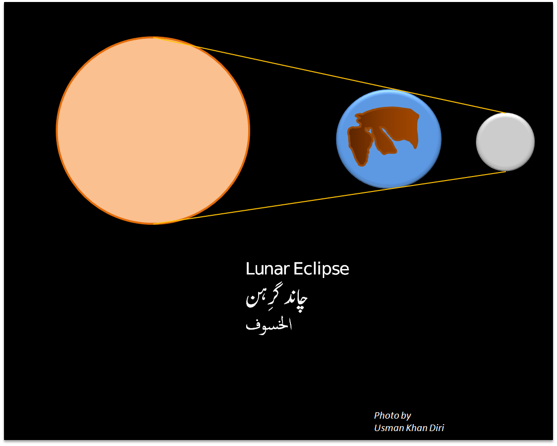 Moon eclipse